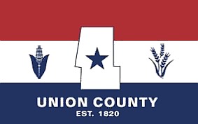 Flag of Union County, Ohio